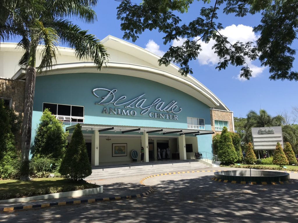 DLSMHSI's gymnasium facade